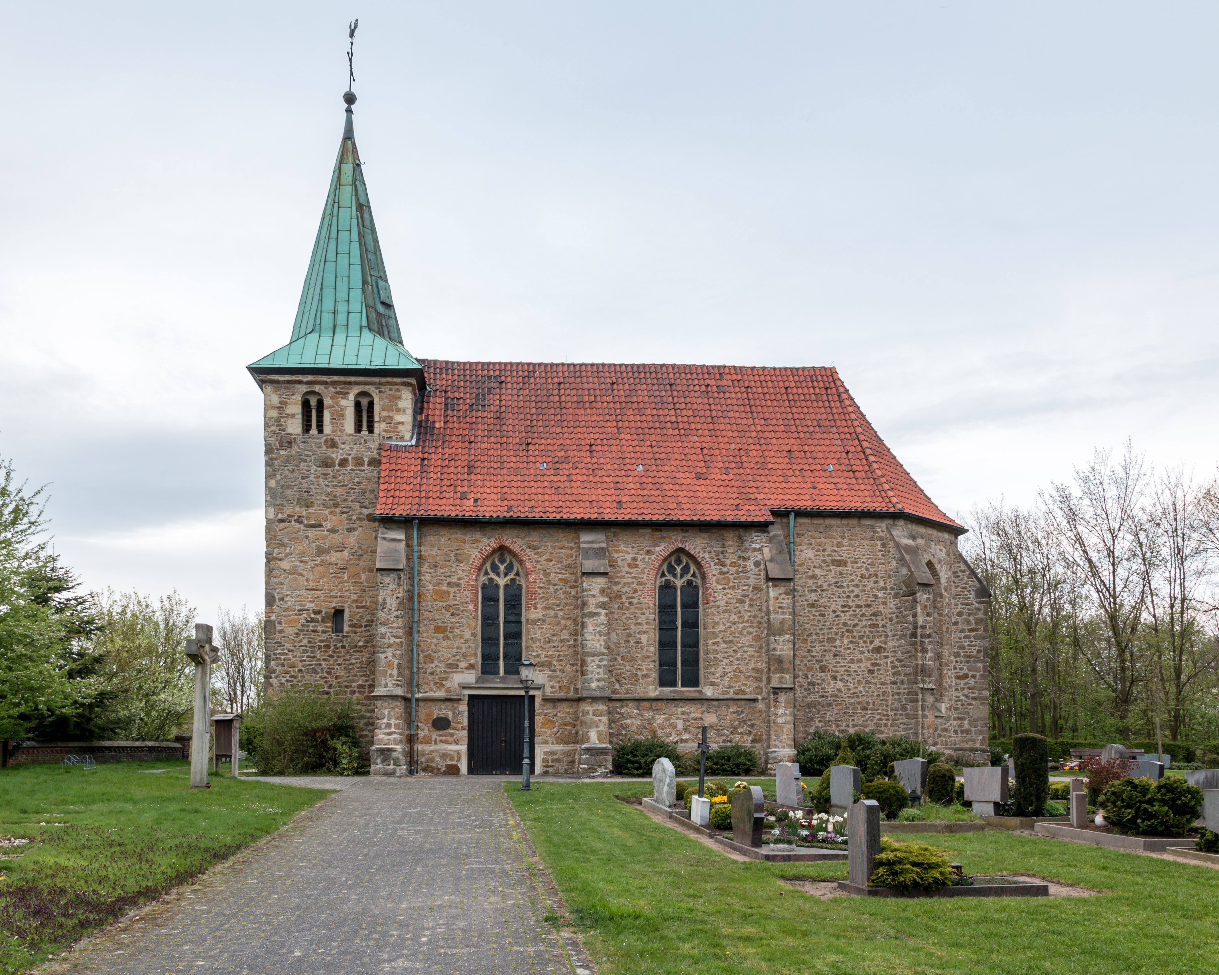 Holy Cross Church in Hamm-Bossendorf, Haltern am See, North Rhine-Westphalia, Germany This image shows a heritage building in Germany, located in the North Rhine-Westphalian city Haltern am See (no. 12).